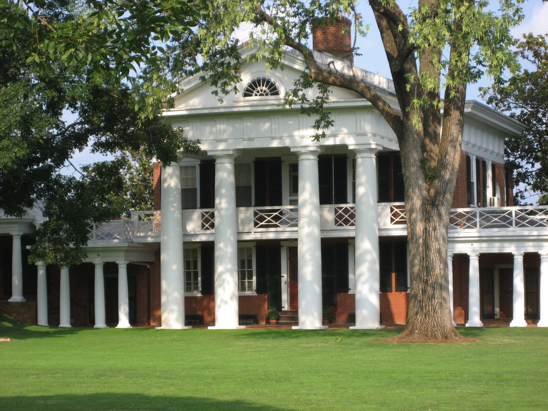 Pavilion IV at the Lawn of the University of Virginia, USA